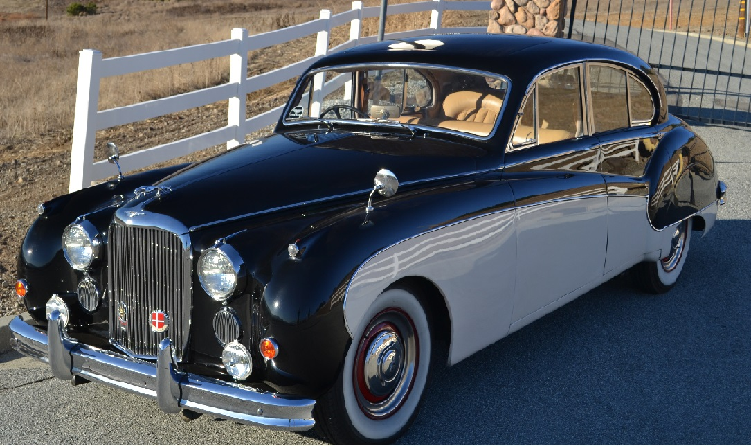 Jaguar MK-IX 1960 owned by Peter Dam Madsen